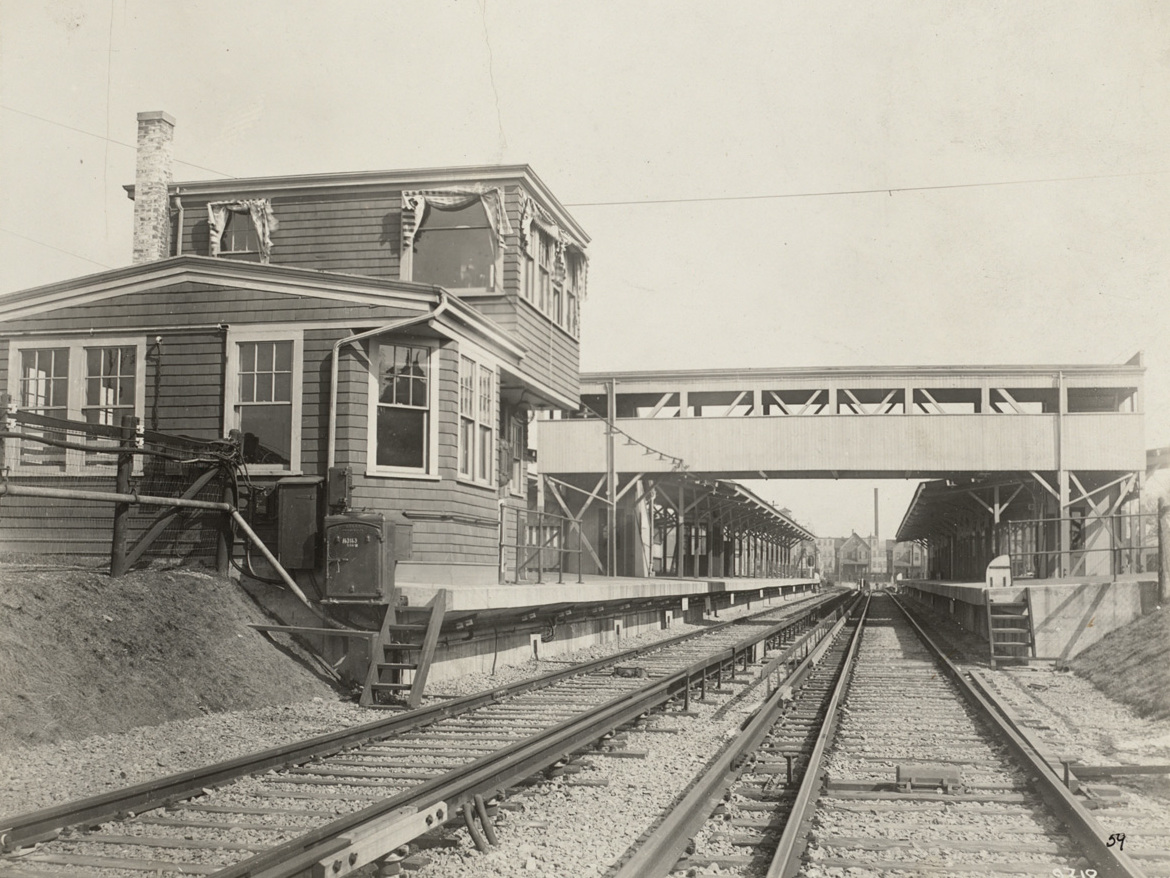 Everett station in 1918, facing northeast